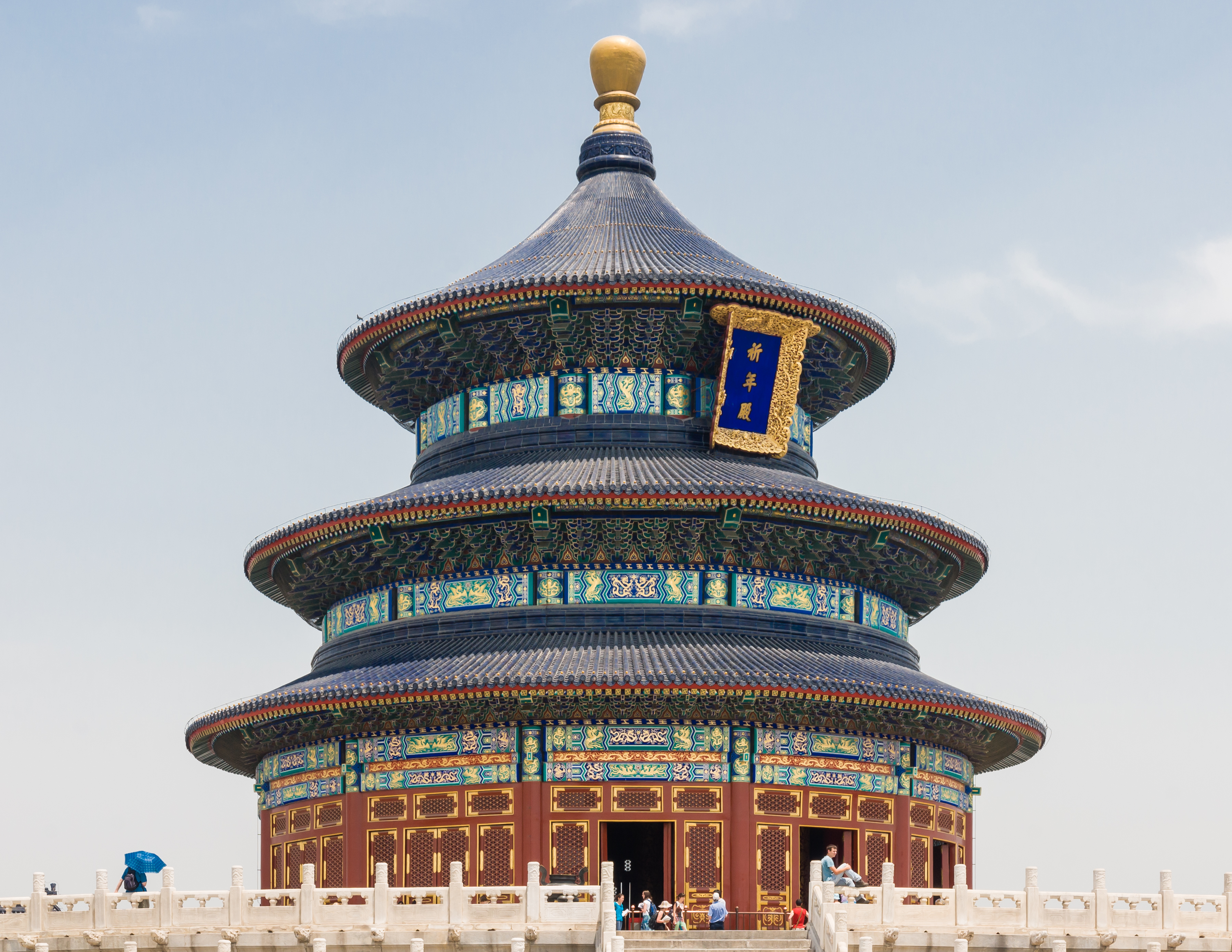 Beijing, China: The Hall of Prayer for Good Harvests.